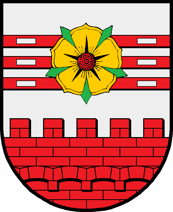 Coat of arms of the municipality Roseburg in Schleswig-Holstein, Germany.